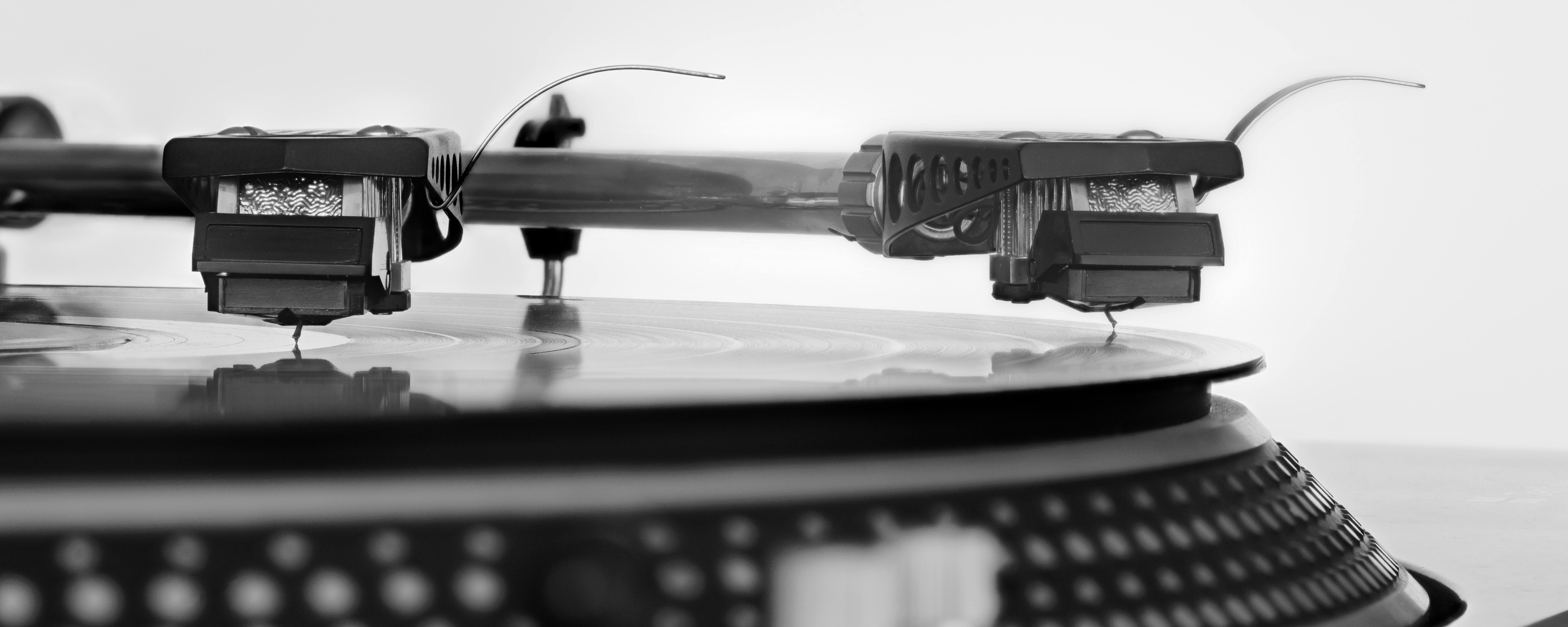 One of my collection of record players. This image displays both the initial and final positions of the pick-up cartridge with the stylus below resting in the record groove. A music signal is generated when the vinyl record with its engraved audio signal is accelerated to the precise rotatation speed and the lowered stylus thus inevitably travels the full length of the groove from the beginning to the very end. Technical details: (a) the record player / turntable is a Technics SL-120 model, (b) the pick-up arm is a SME model 3009 series II improved, and (c) the pick-up cartridge is a Shure V-15 type III Stereo Dynetic Phonograph Cartridge. This image is a multiple exposure composed as a focus stack of 20 images (see frame "NOTE" below). To be precise I took two focus stacks, one with the cartridge on the left and then continued seamlessly to the rear with the other stack after having carefully lifted the cartridge to the right. These two stacks were subsequently merged into one single image, now sporting two pick-up cartridges which convincingly illustrate the stylus' movement from, as the contest required, beginning to end.